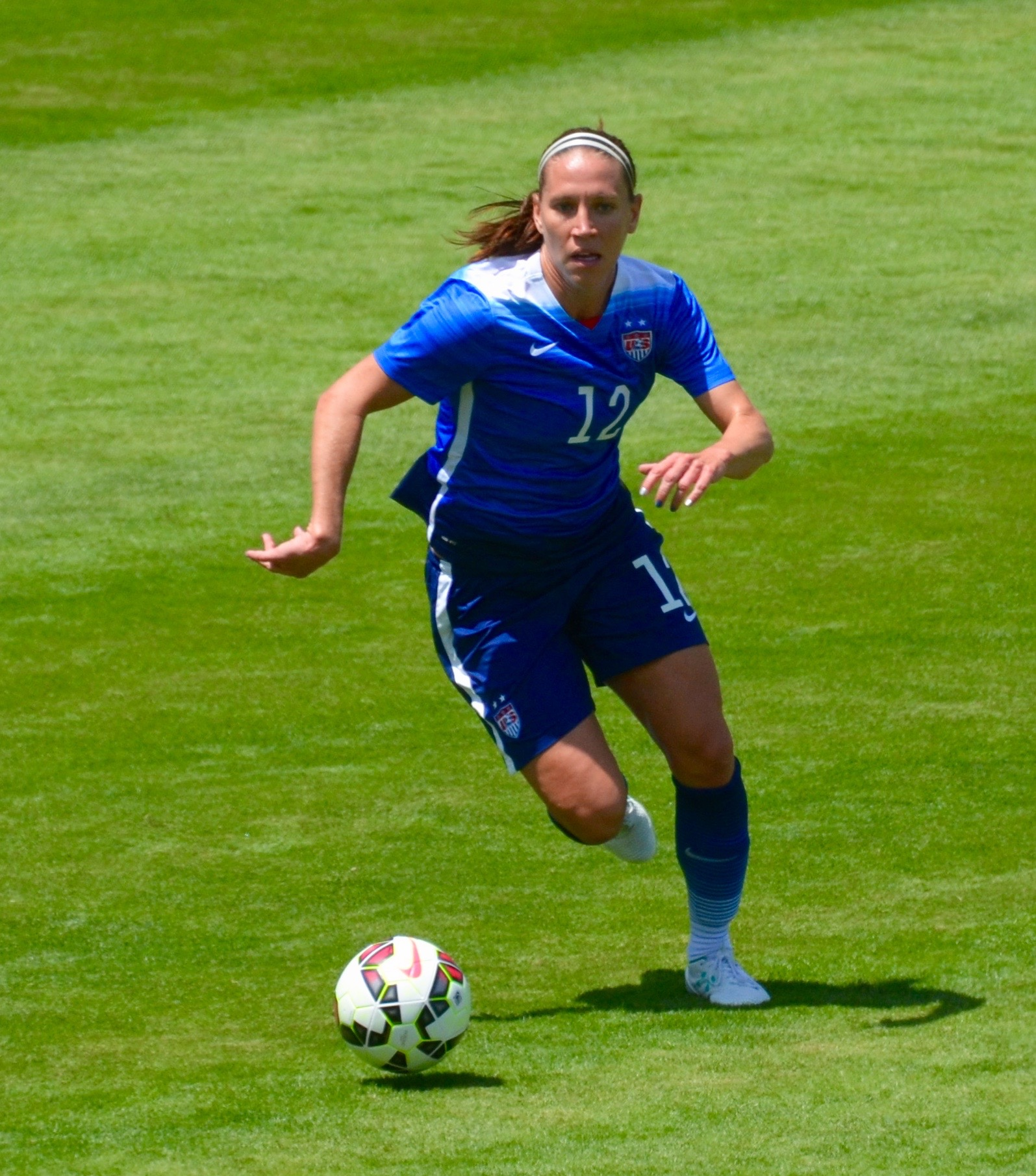 Lauren Cheney playing for the US Women's National Team in San Jose, California on 10 May 2015.